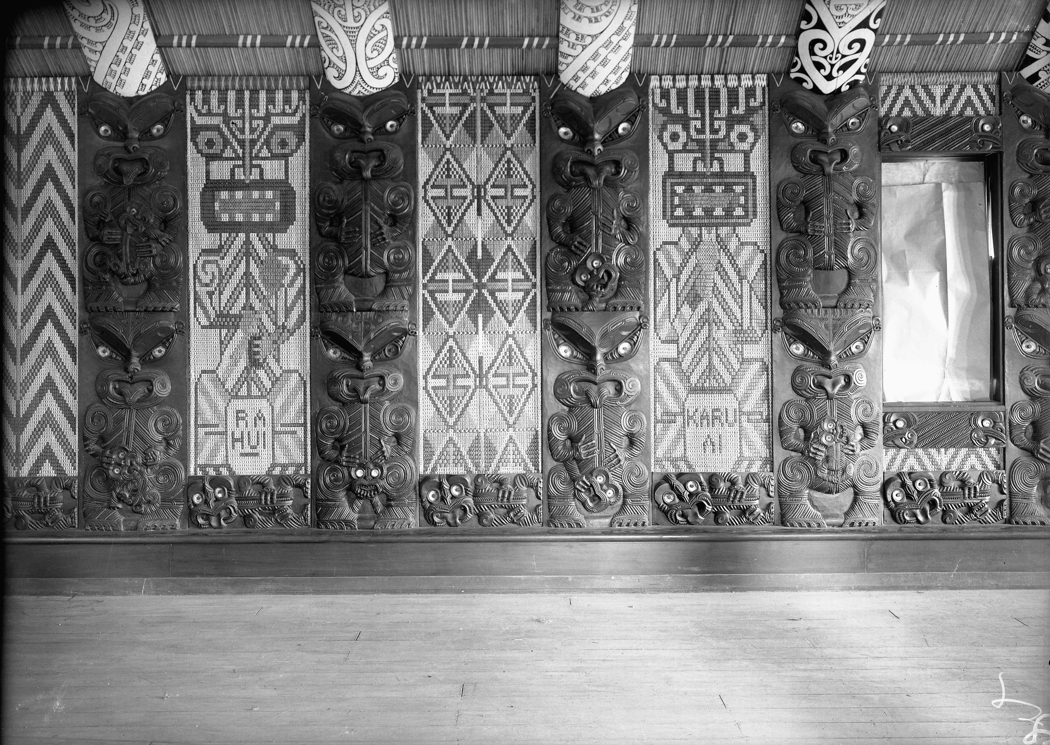 Tukutuku and carved wooden panels, inside Porourangi meeting house at Waiomatatini. Photographer unidentified. Date unknown. Note on back of file print reads "(2) Rt side - entering Panels 6,7,89".